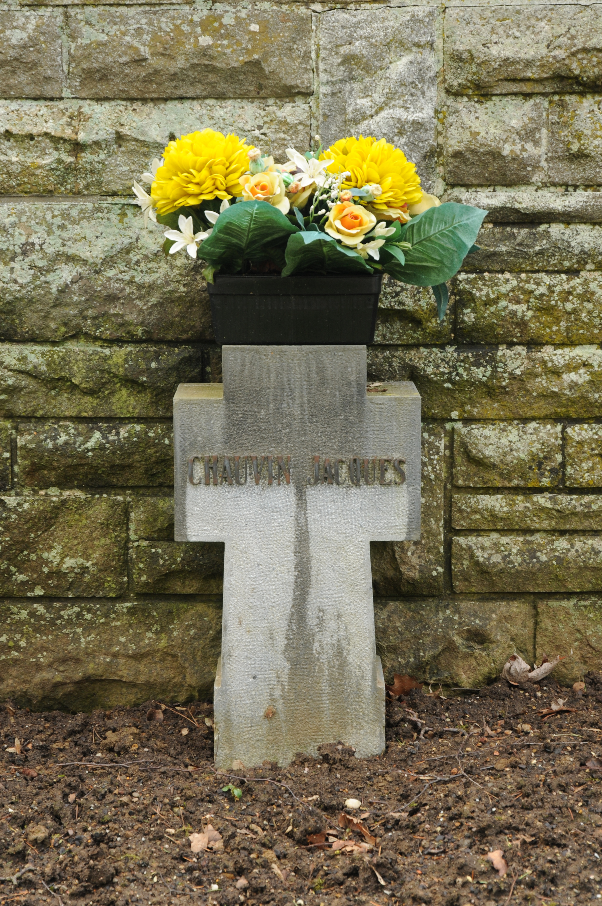 Grave of Jacques Chauvin, sous-lieutenant des spahis, in Dudelange.